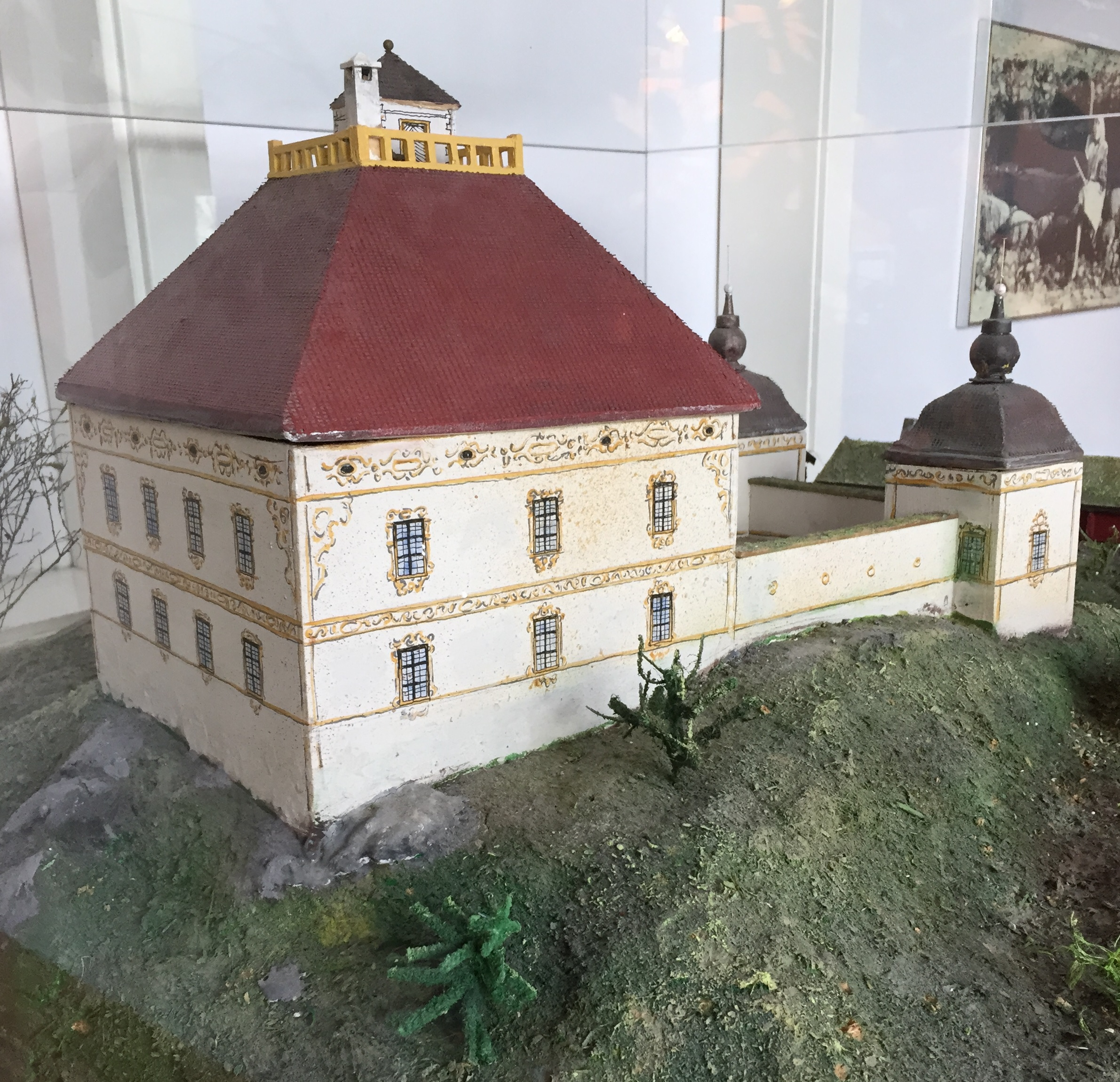 The manor of Brahehus, outside Gränna in Sweden. The model shows its appearence ca 1670.